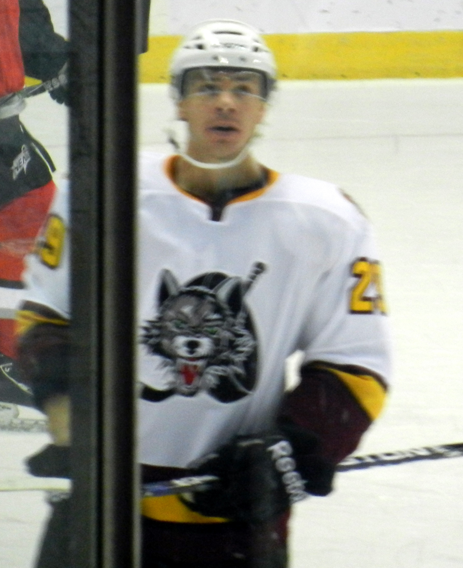 Steve Reinprecht playing for the Chicago Wolves during the 2011-12 AHL season